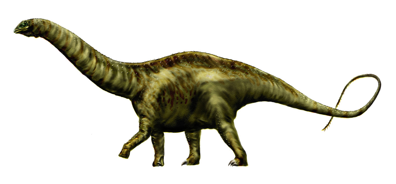 Illustration of the diplodocid Apatosaurus louisae, a species related to A. excelsus (formerly Brontosaurus). The spine placements are speculative based on evidence for small spikes along the backs of diplodocids.